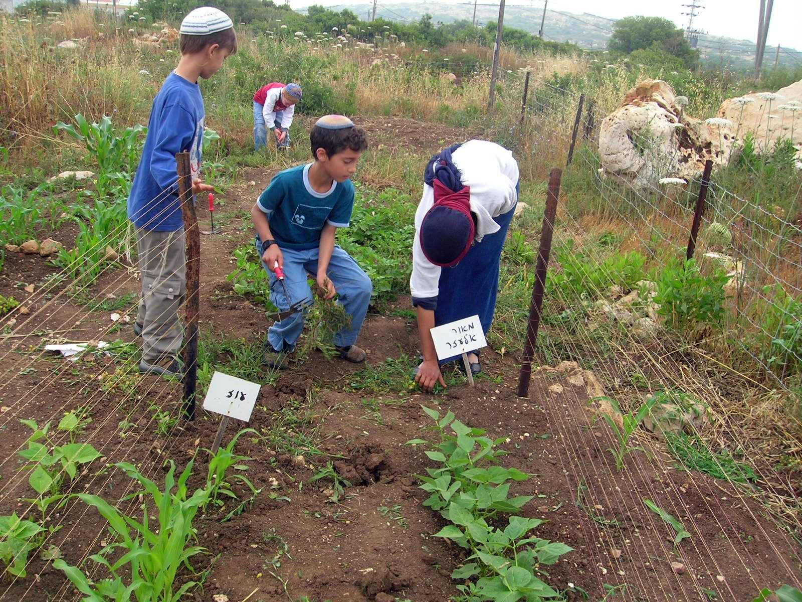 Tal_Menashe_-_students_in_the_garden